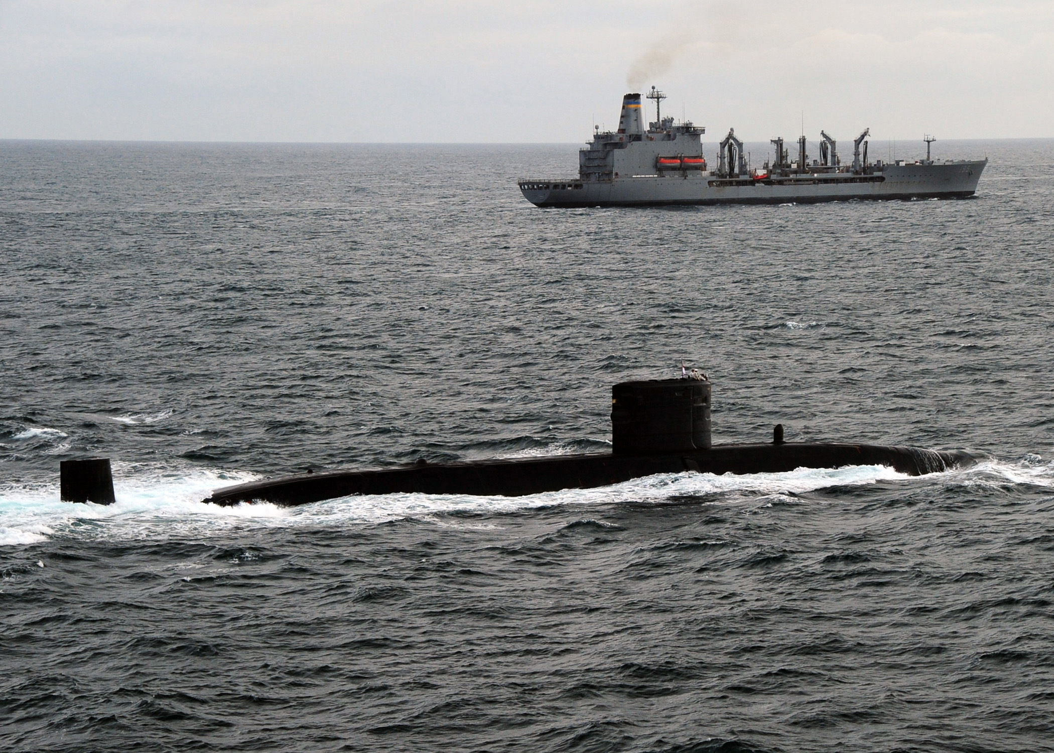 ATLANTIC OCEAN (May 20, 2011) The Royal Navy Trafalgar-class submarine HMS Torbay (S90) is underway in formation with the Military Sealift Command fleet replenishment oiler USNS Leroy Grumman (T-AO 195) during the Royal Navy-sponsored joint exercise Saxon Warrior 11. Ships and aircraft assigned to the George H.W. Bush Carrier Strike Group are deployed to the U.S. 6th Fleet area of responsibility supporting maritime security operations and theater security cooperation efforts. (U.S. Navy photo by Mass Communication Specialist 3rd Class Nicholas Hall/Released)